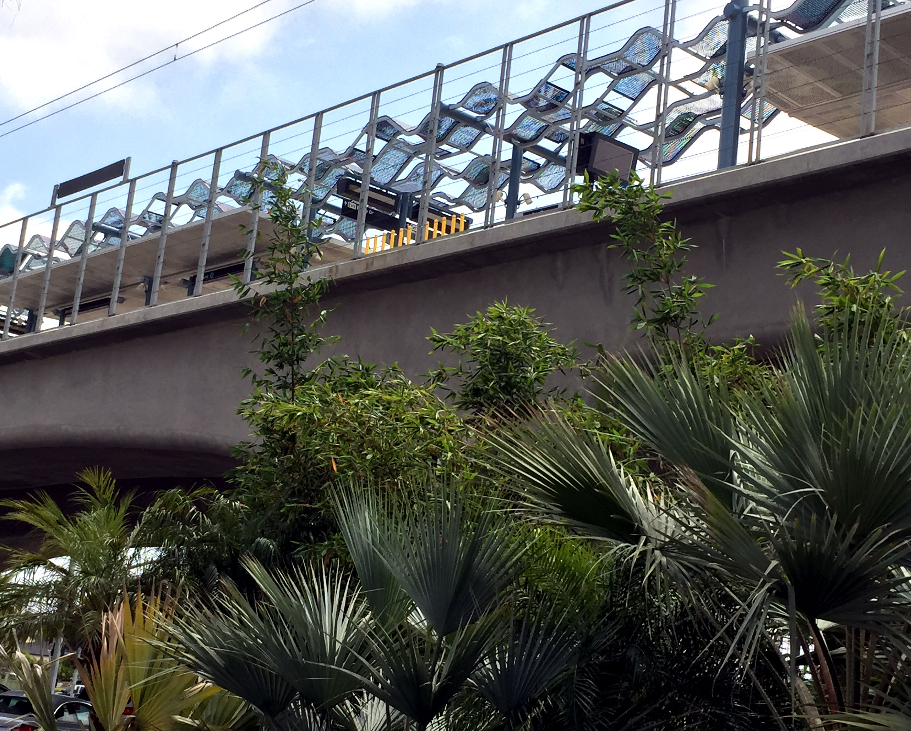 Expo/Bundy Station at Bundy Avenue